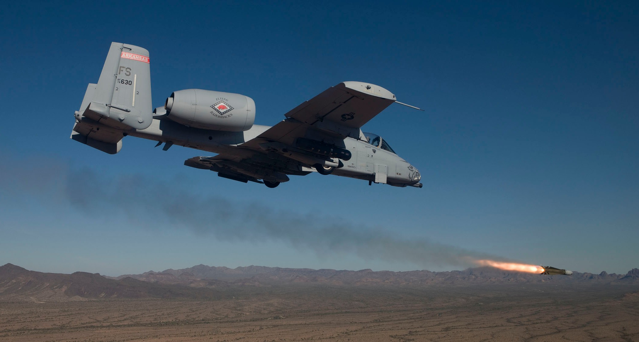 An A-10C Thunderbolt II with the 188th Fighter Wing, Arkansas Air National Guard conducts close-air support training Nov. 21, 2013, near Davis-Monthan Air Force Base, Ariz.